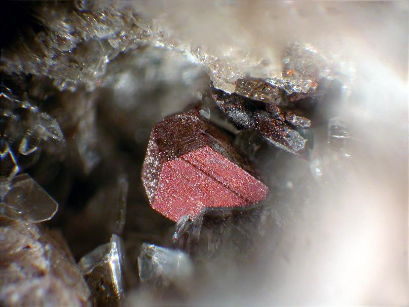 Fayalite (0.5x0.7mm) between Sanidine crystals - Locality: Wannenköpfe, Ochtendung, Eifel region, Germany